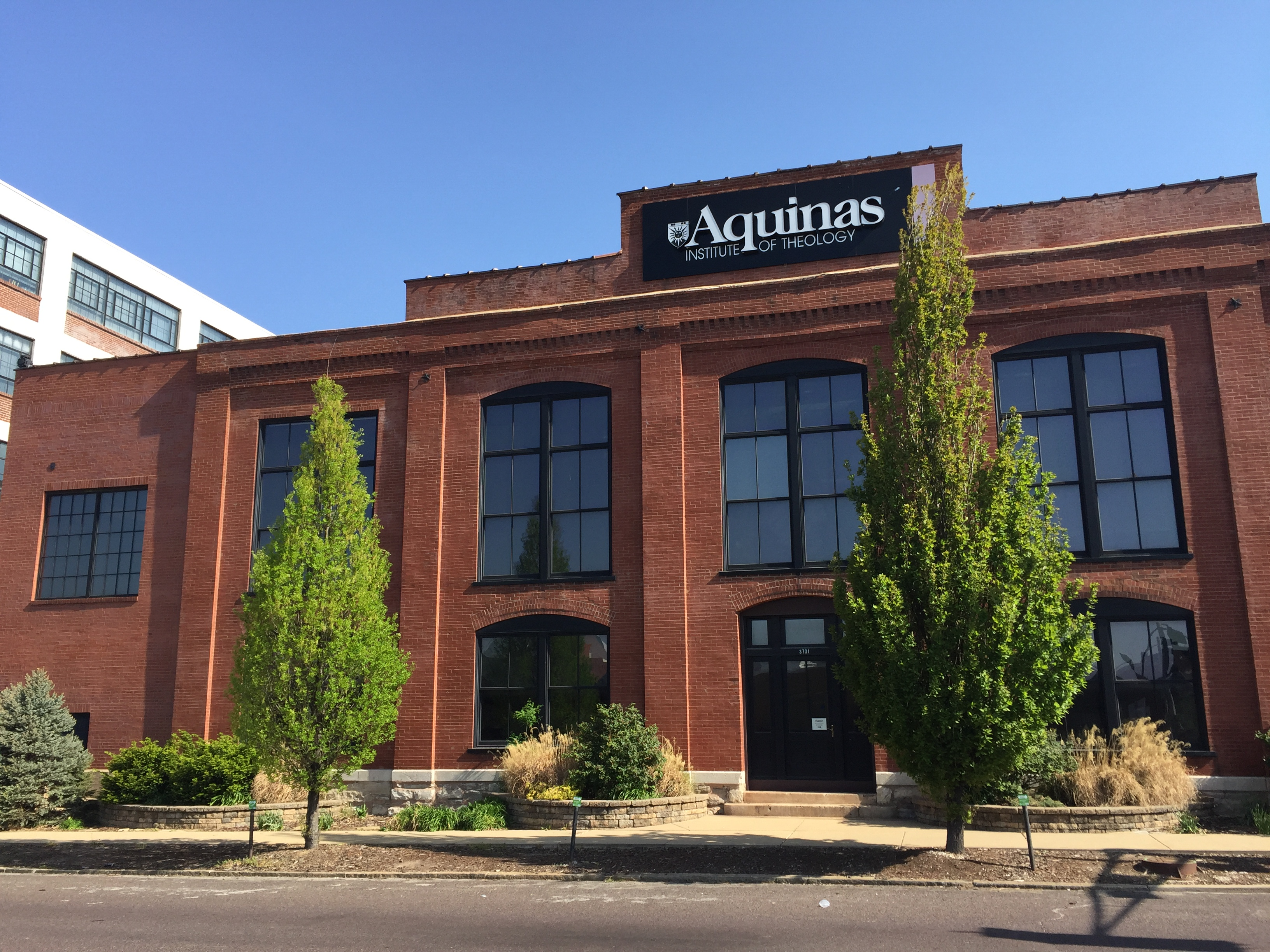 Aquinas Institute of Theology (formerly the Standard Adding Machine Company building), Saint Louis, Missouri